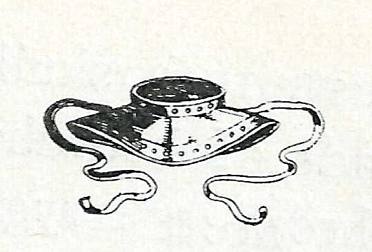 Gorget